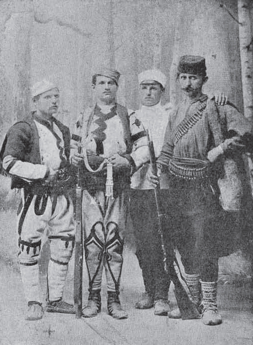 Portrait of IMARO member Ang. Sekulov from Bazernik